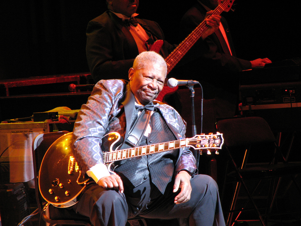 Photo by Kasra Ganjavi